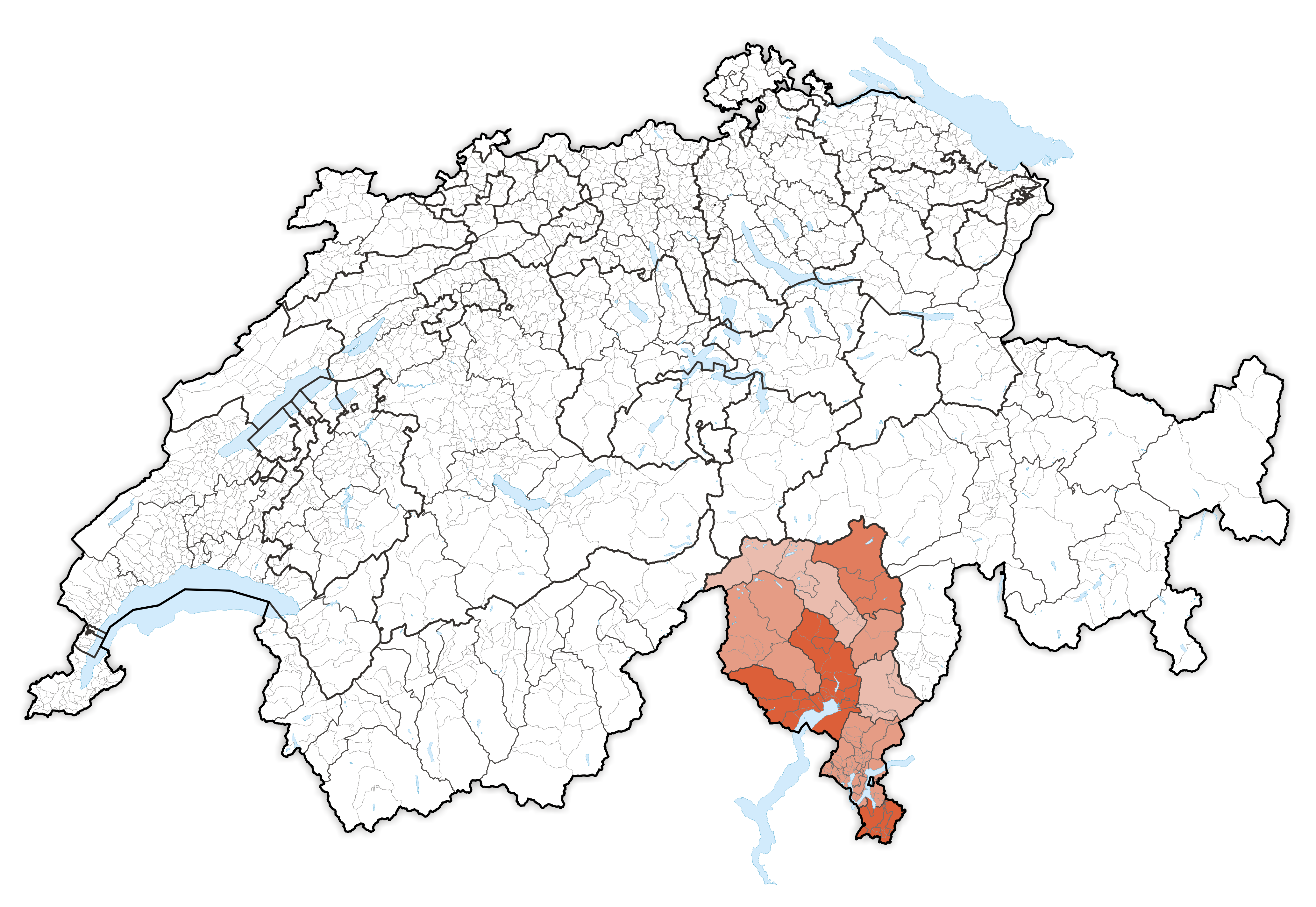 Canton Tessin